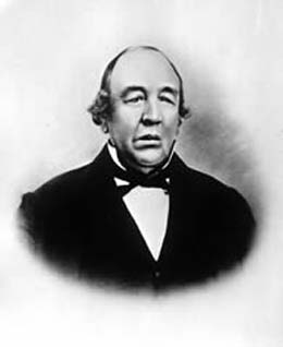 John Work, fur trader and Hudson’s Bay Company officer; born ~1792; died in 1861